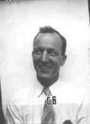 Los Alamos wartime badge photo of physicist Hugh Bradner (1915 – 2008)